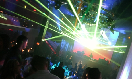 Copper-Bromide laser in operation in South Florida, February 2006